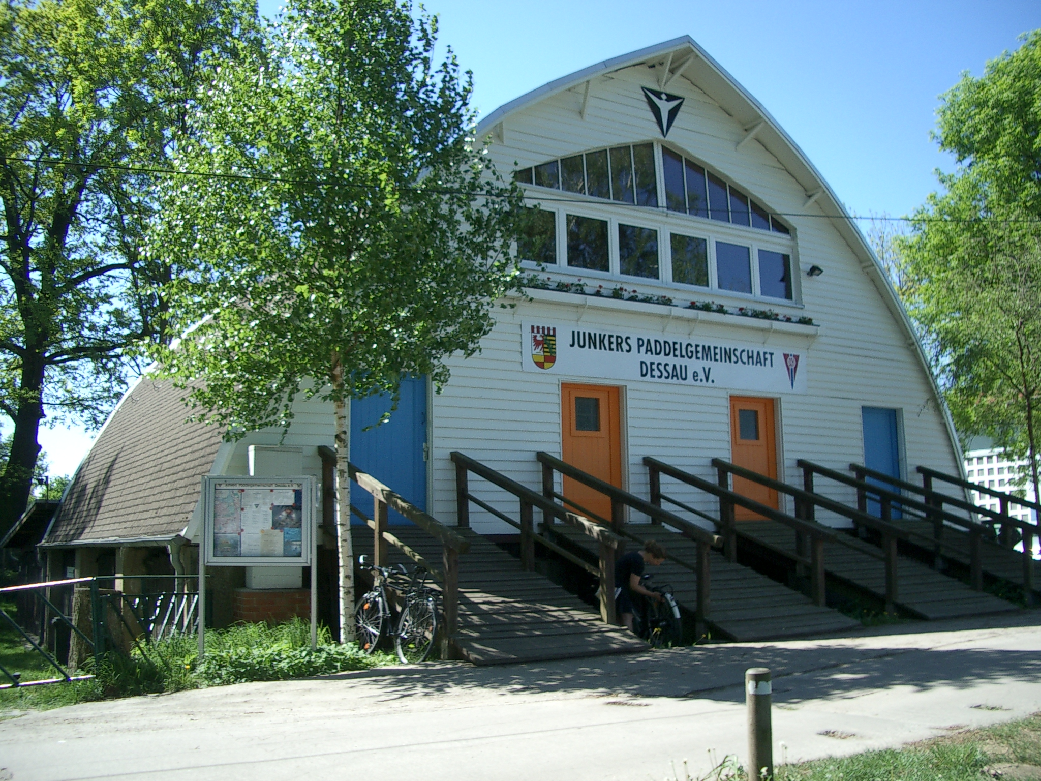 boathouse in the Leopold harbor in Dessau